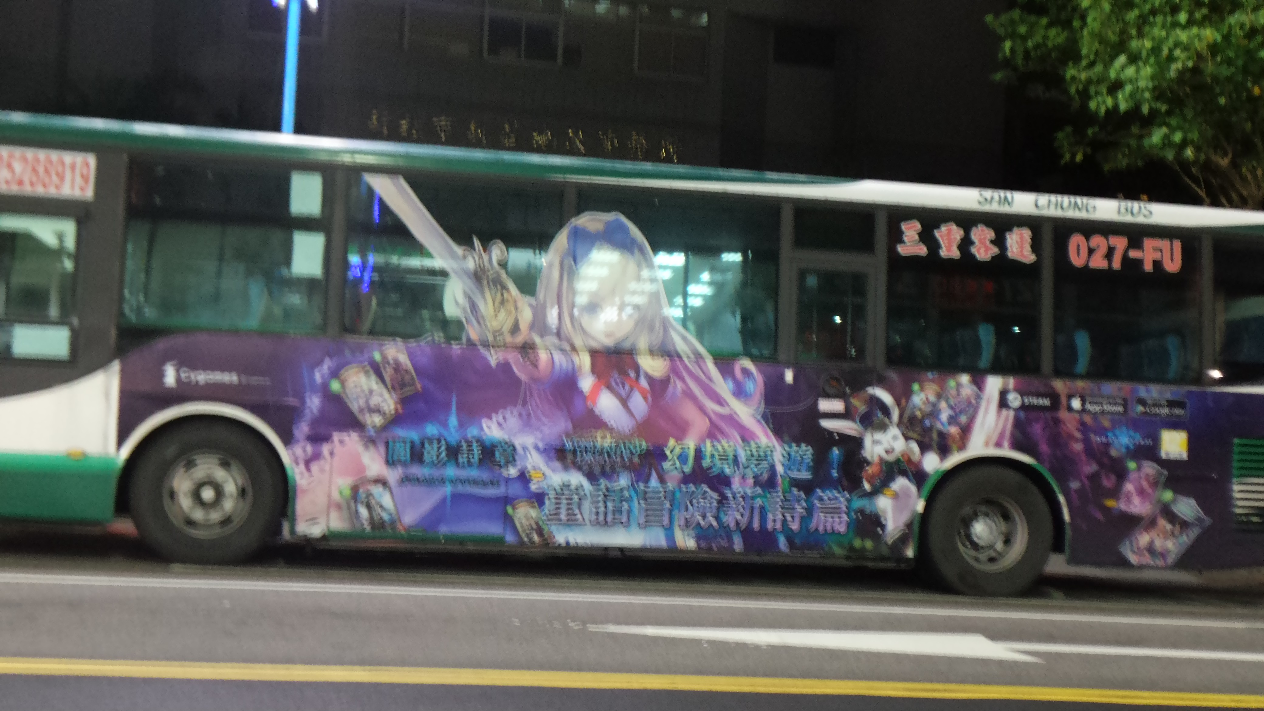 Shadow verse bus ad